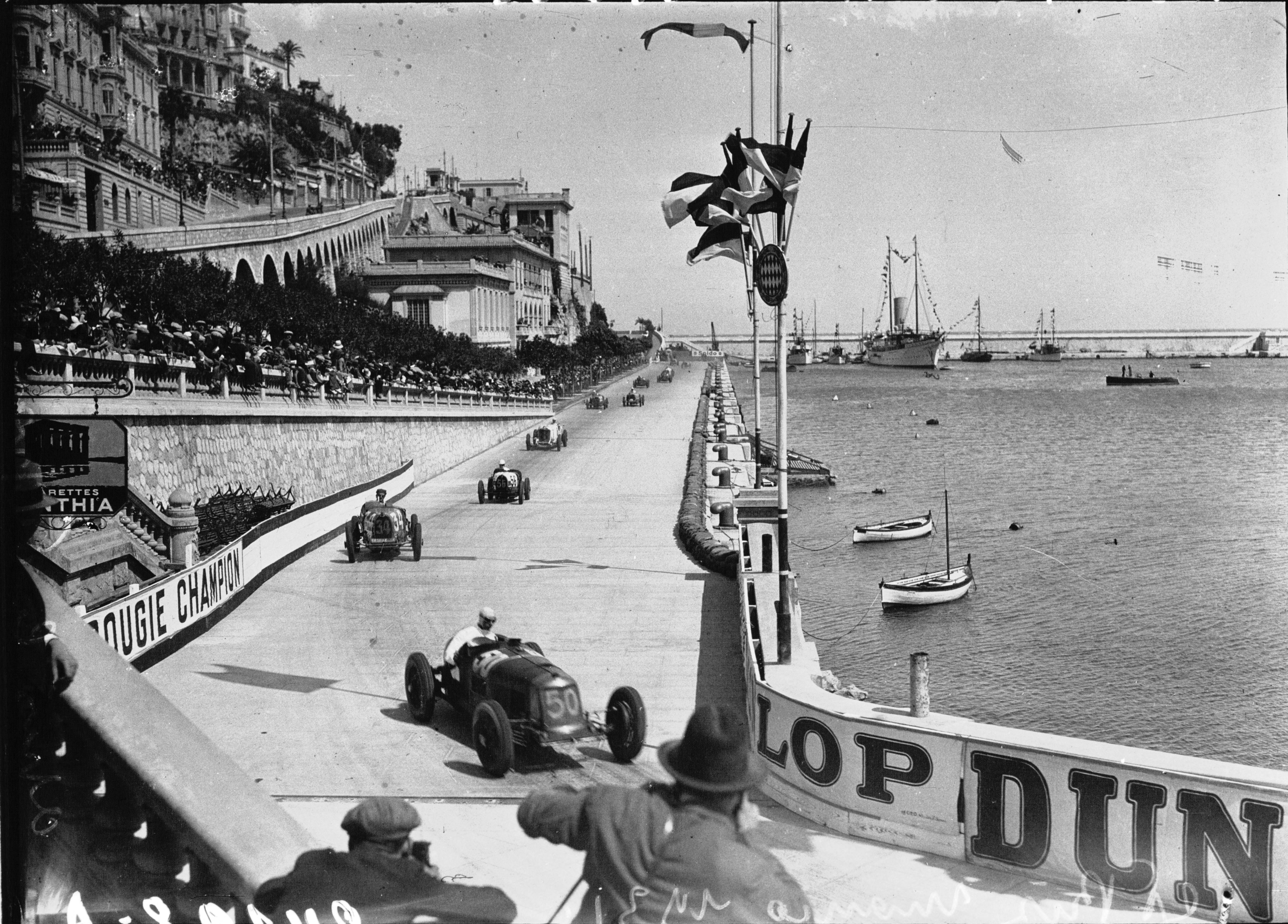 After the start of the 1931 Monaco Grand Prix. In front is #50, the 1928 Maserati Tipo 26B/M 8C 2800 s/n 33/2515 driven by René Dreyfus.